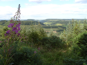 View at Langdale End, on the route of The White Rose Way.